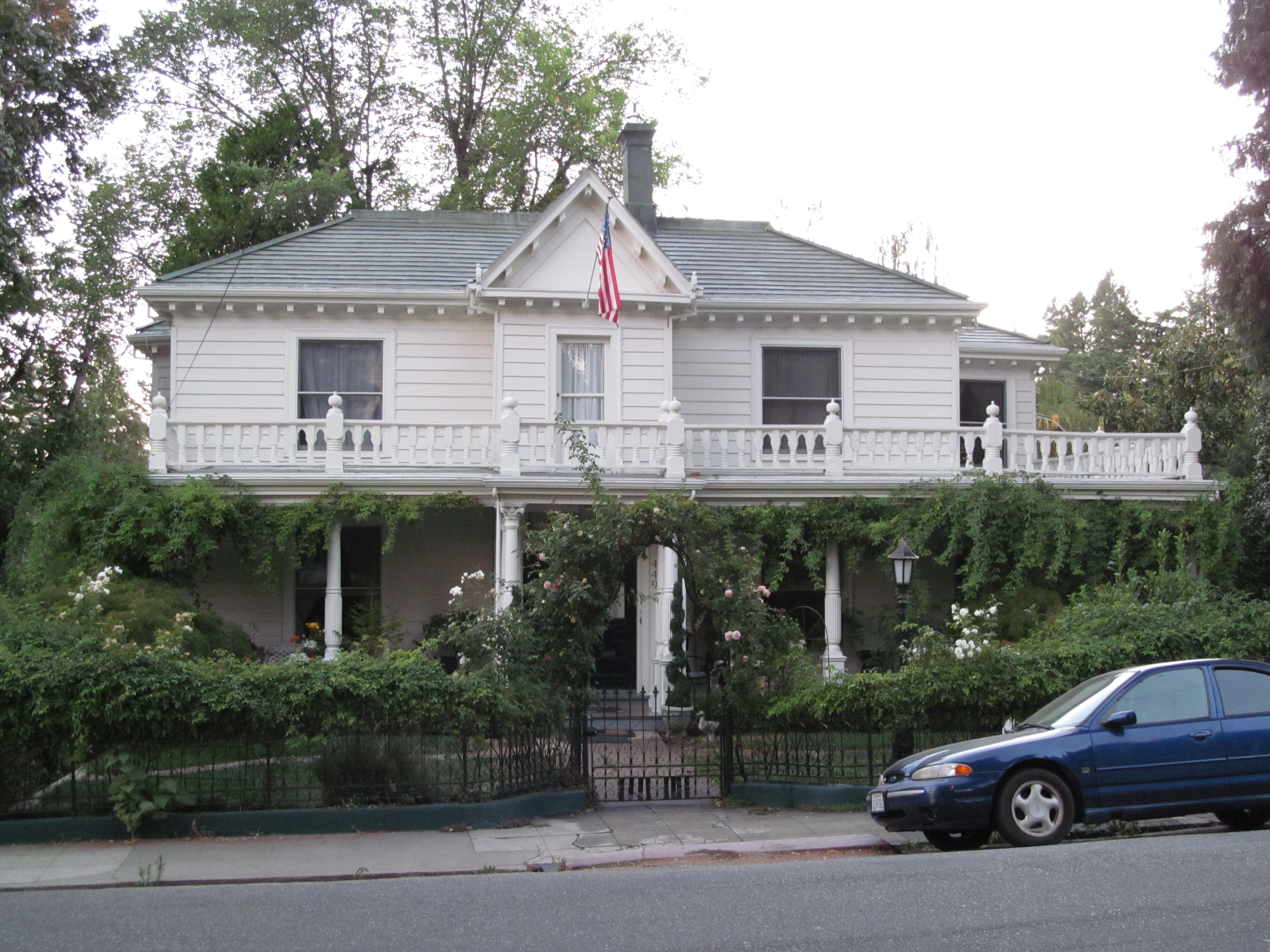 449 Broad Street, Nevada City, CA